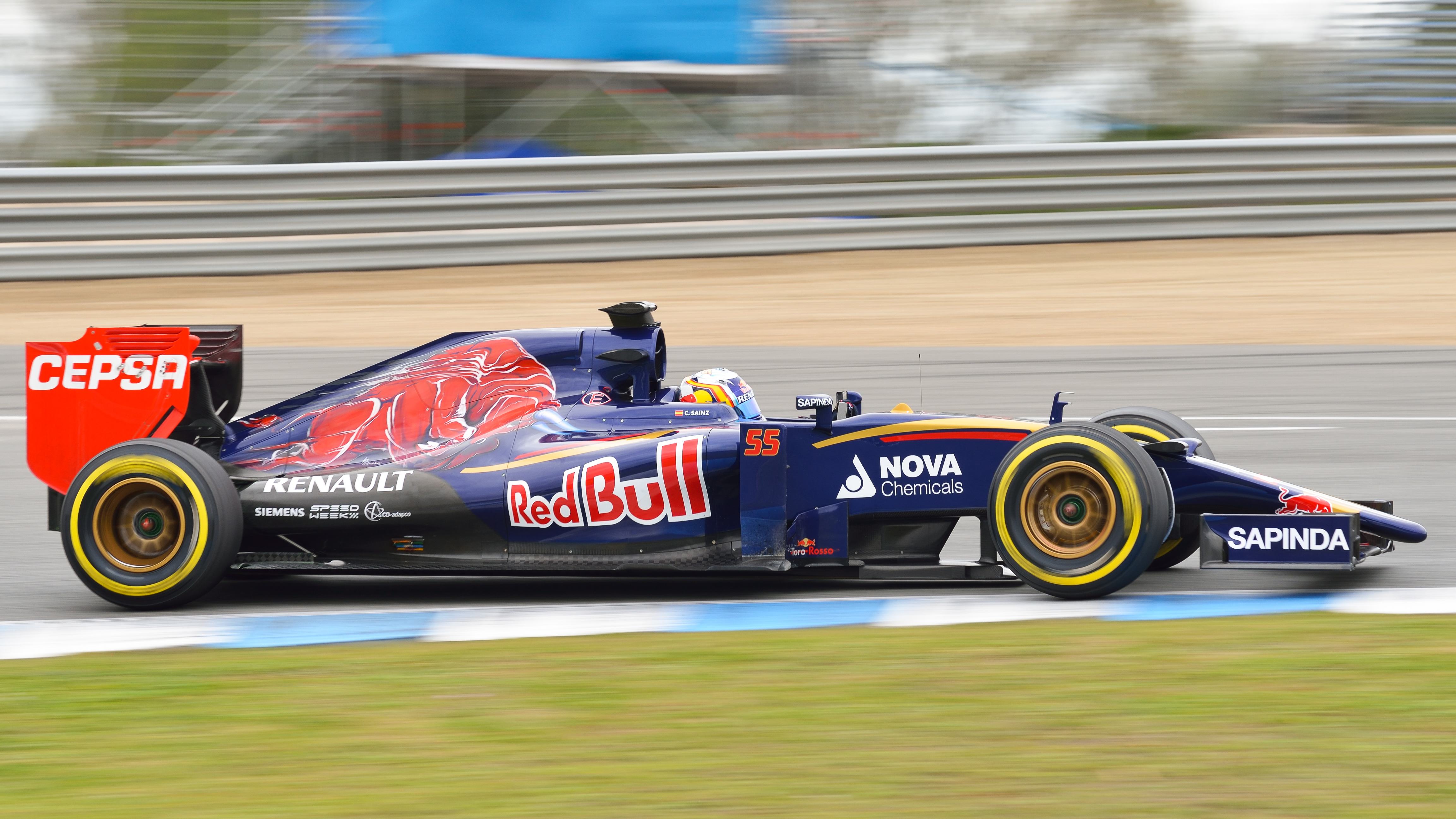 Carlos Sainz pushes STR10